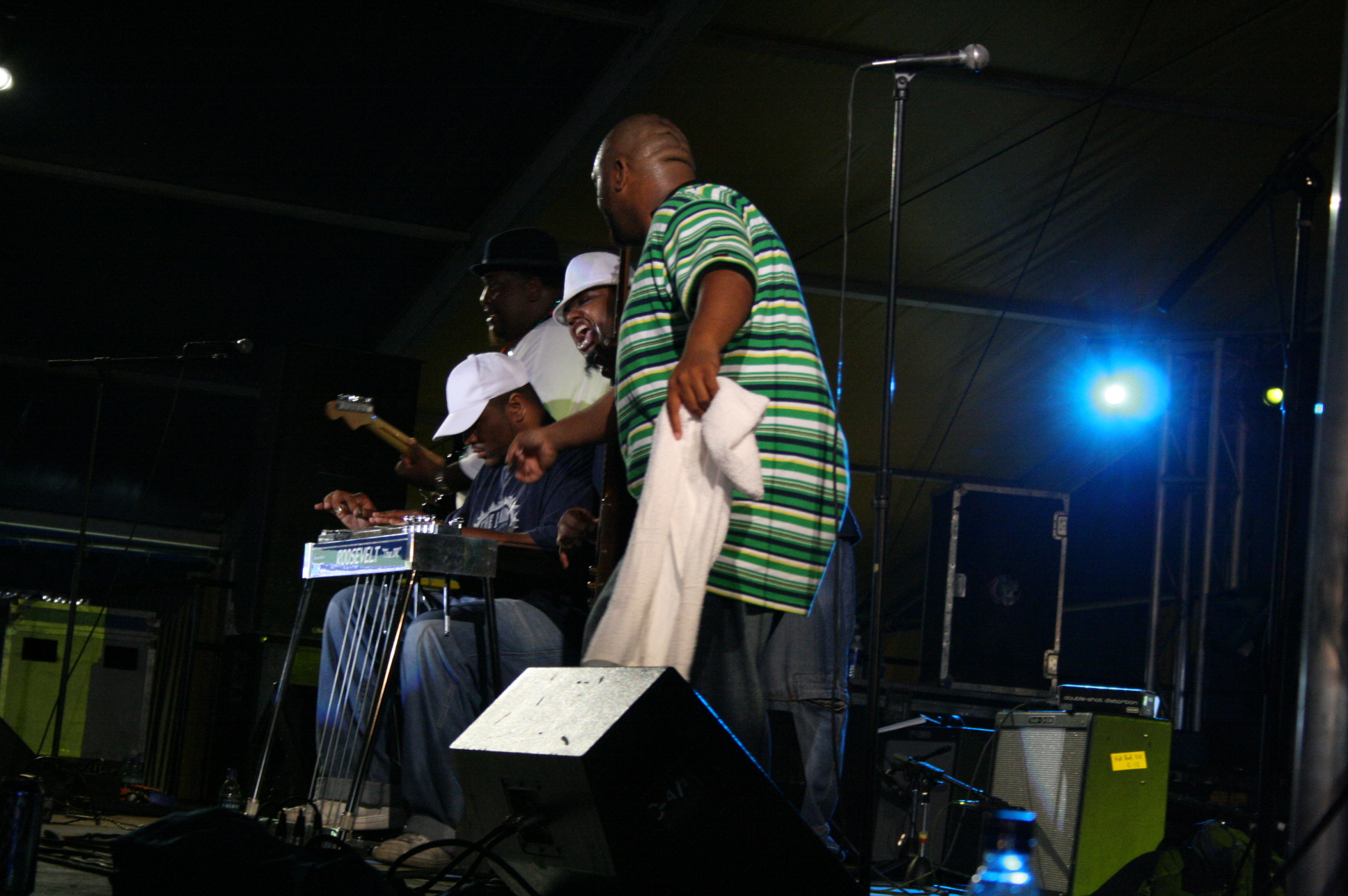 The Lee Boys, an American funk and gospel band performing at the Beale Street Music Festival in 2007.